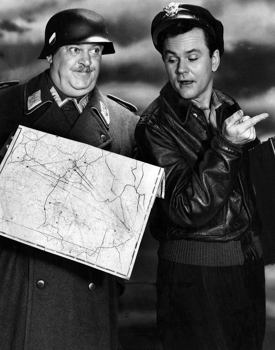 Photo of John Banner as Sergeant Schultz and Bob Crane as Colonel Hogan from the television comedy Hogan's Heroes.